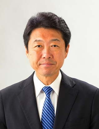 Kado Hirofumi was inaugurated as Parliamentary Vice-Minister of Land, Infrastructure, Transport and Tourism on September, 2019